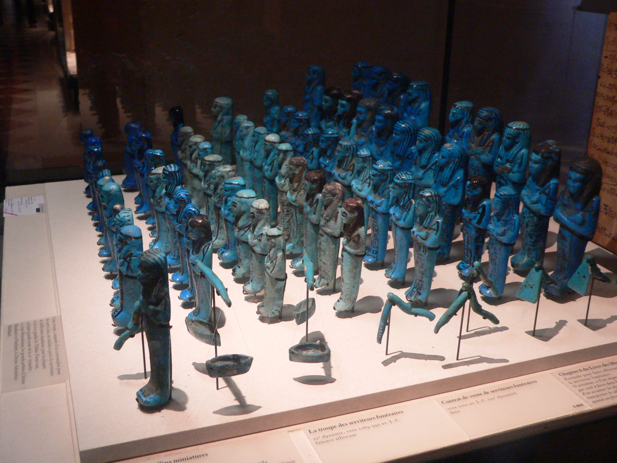 Egyptian antiquities of the Louvre (the category is temporary and serves for work upon the whole set of images)